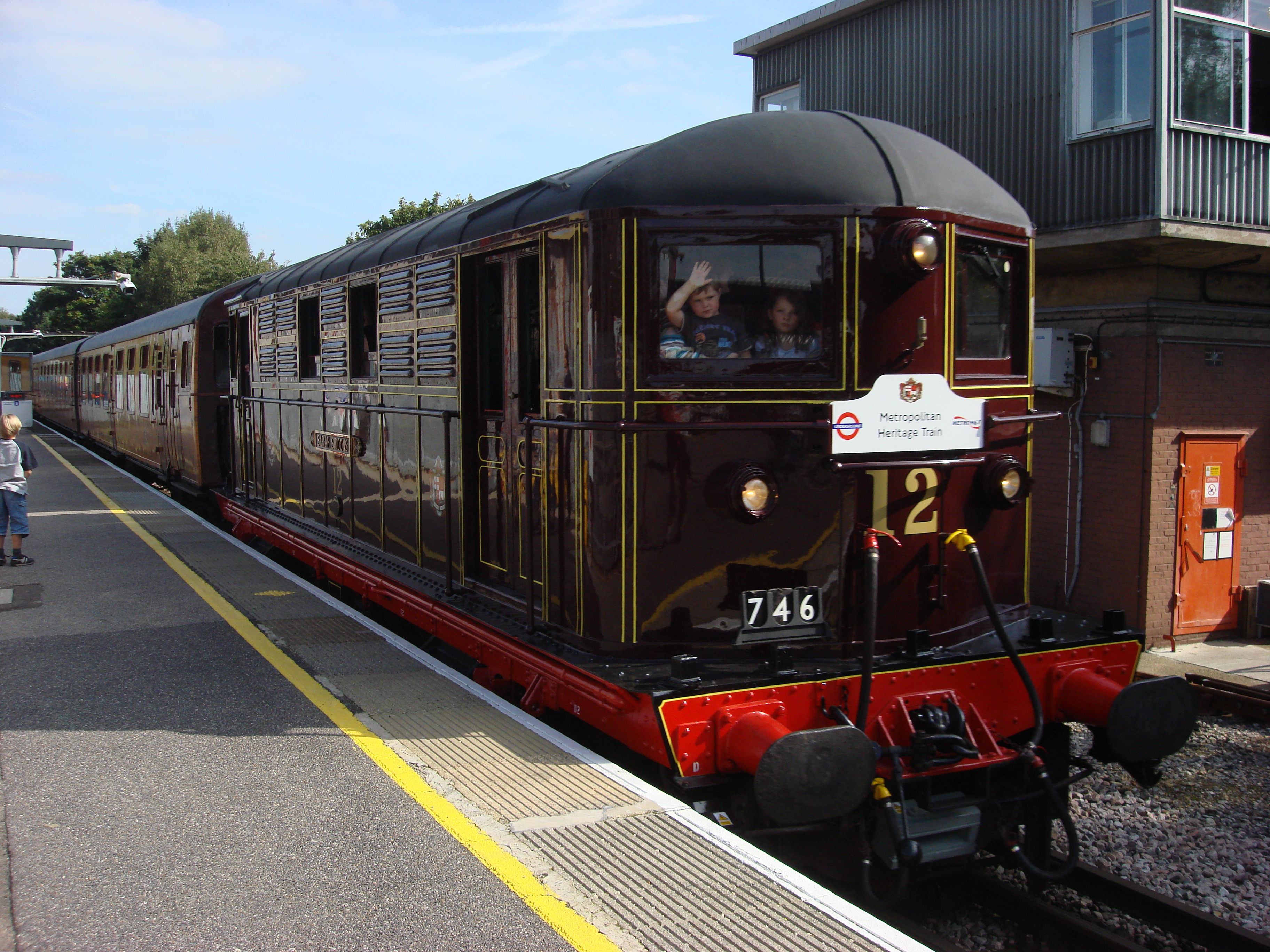 Metropolitan Railway locomotive number 12 "Sarah Siddons" constructed by Metropolitan Vickers in 1921. Preserved in working order and seen here at Amersham station.